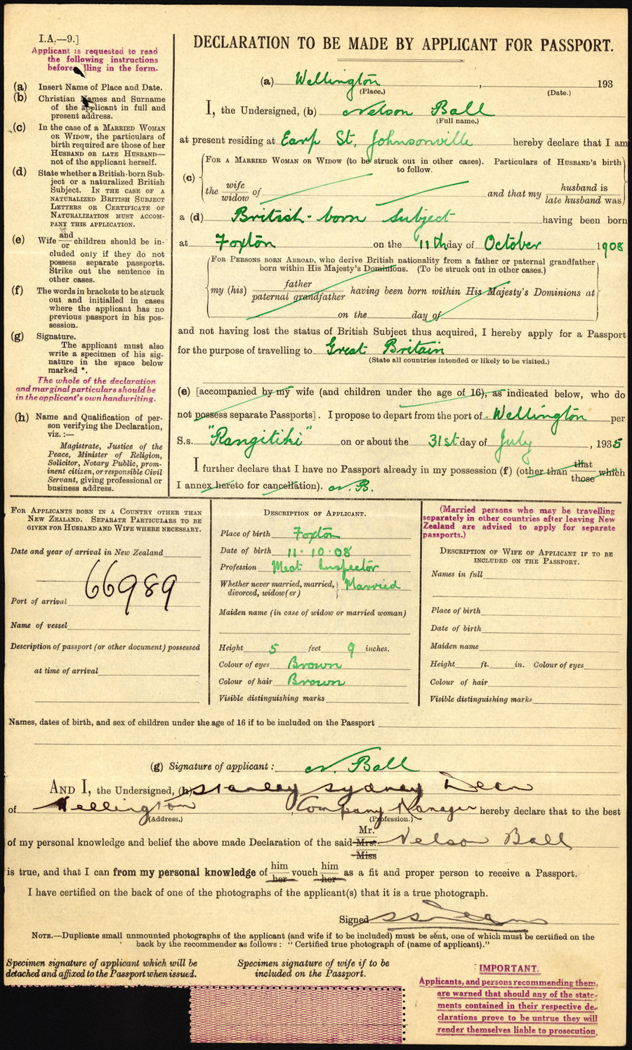 Archives New Zealand Reference: ACGO 8333 IA1 1350 / 15/11/59182